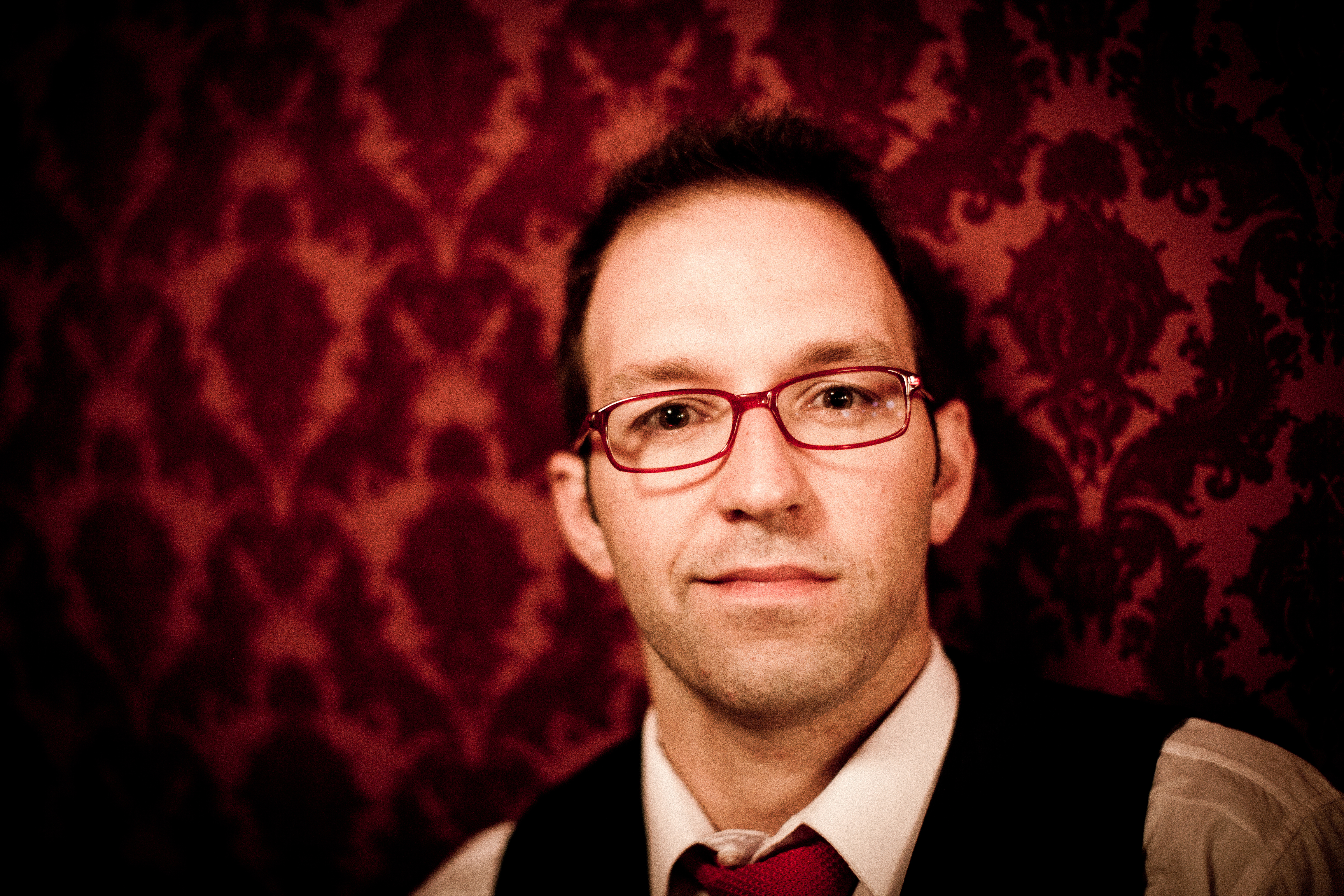 Helder Guimarães